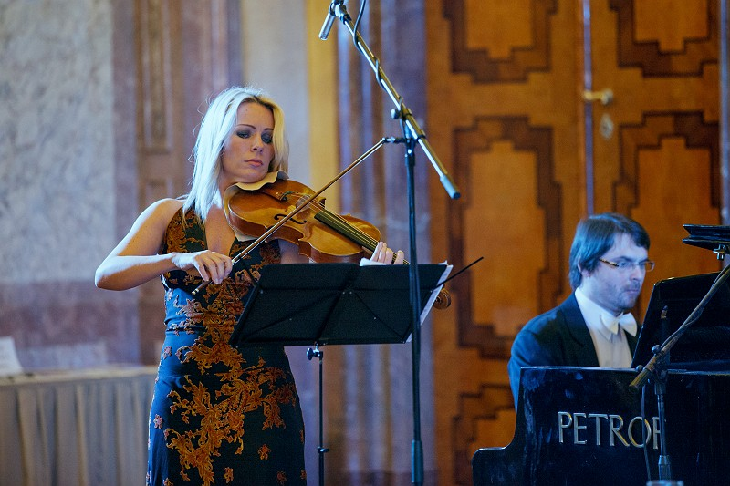 Czech viola virtuoso Jitka Hosprová and pianist Štěpán Kos on concert for chinese lawyer Gao Zhisheng and persecuted folowers of Falun Gong spiritual mowement in czech Senate, Valdštejn Palace, Prague, 2012.